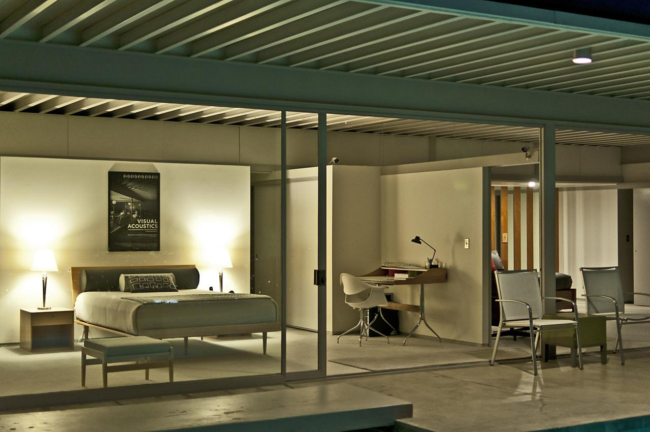 The Case Study House No. 22 — Stahl House — Hollywood Hills, Los Angeles, California.